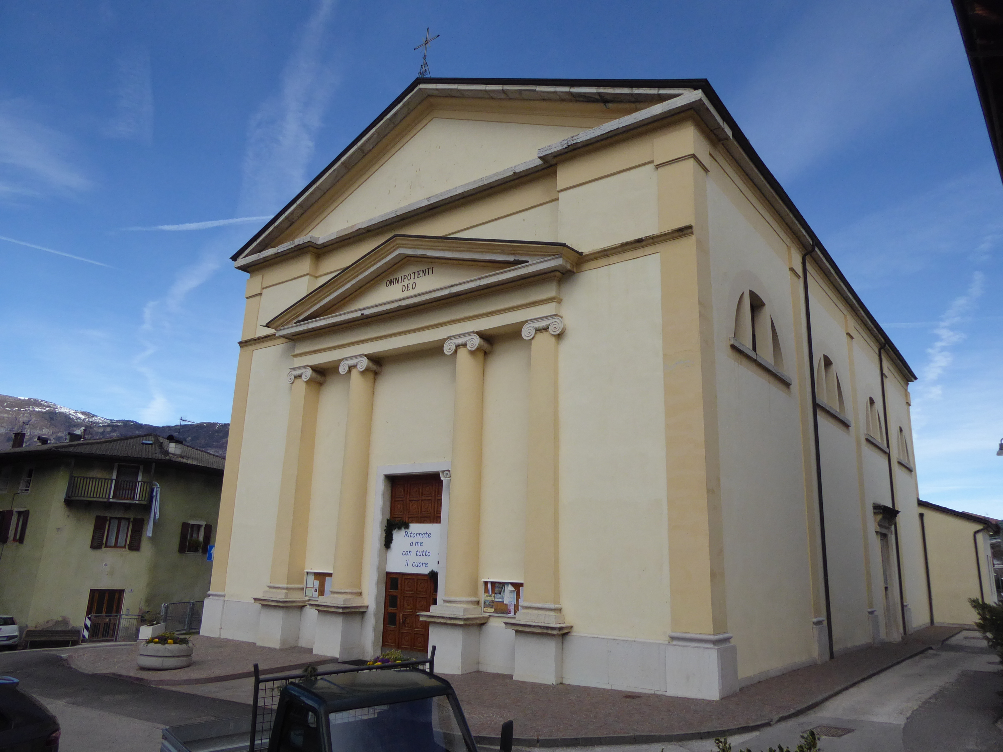 Sopramonte (Trento, Italy) - Sacred Heart of Jesus church